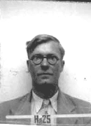 Los Alamos wartime badge photo: William G. Penney